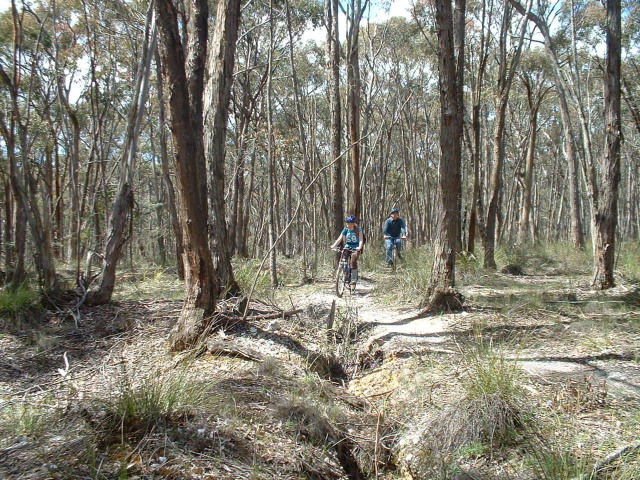 People riding along a section of the the Great Dividing Trail in the Creswick Regional Park, Victoria, Australia. This section of the trail is following an old mining water race.